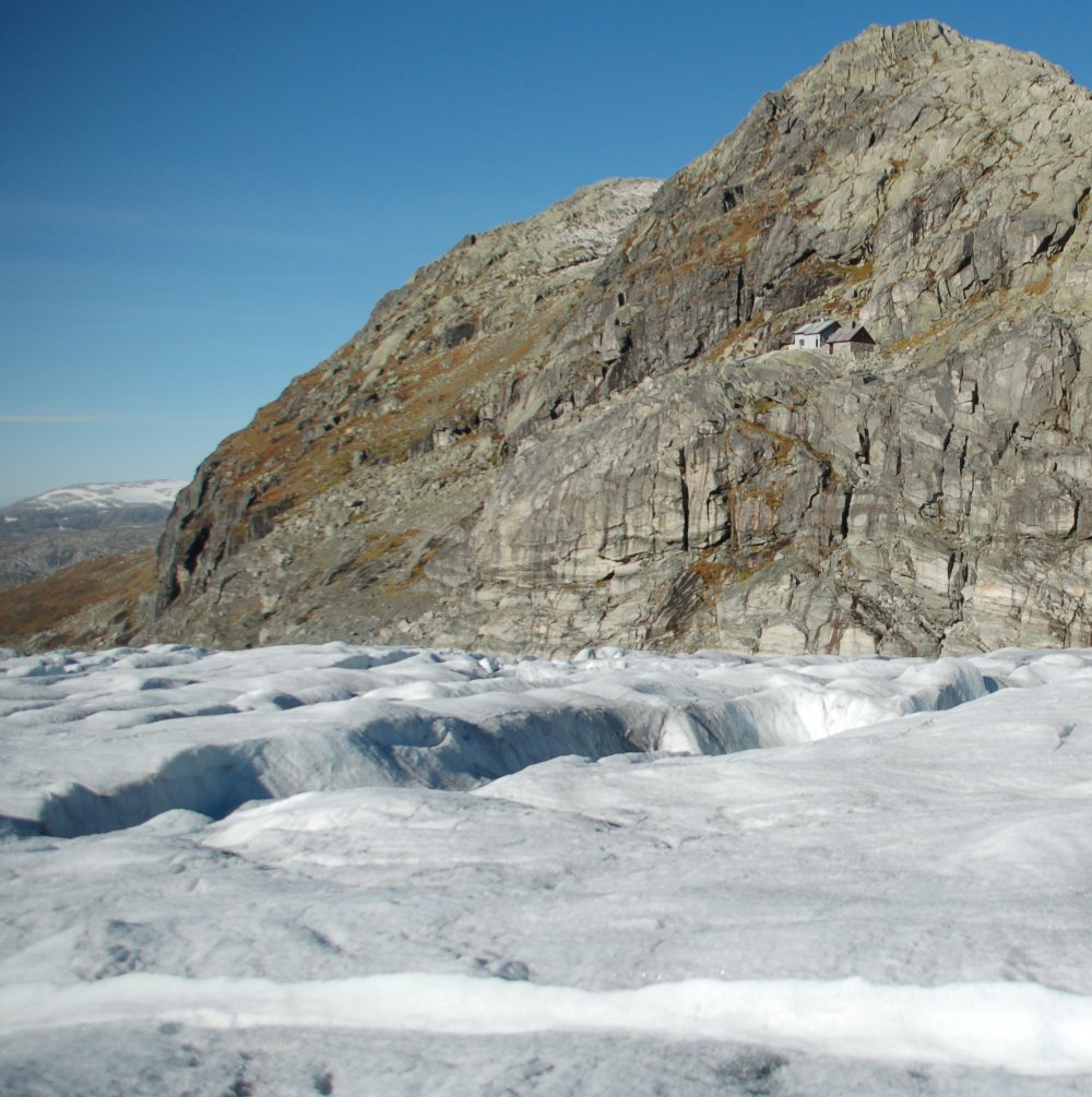 Demmevass Cottage seen from the nearby glacier.